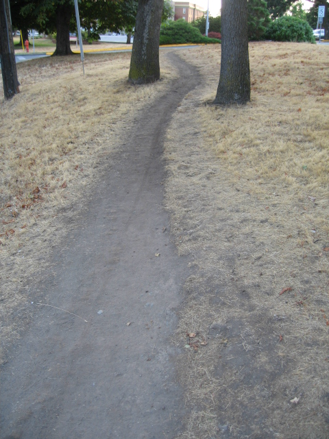 A desire path